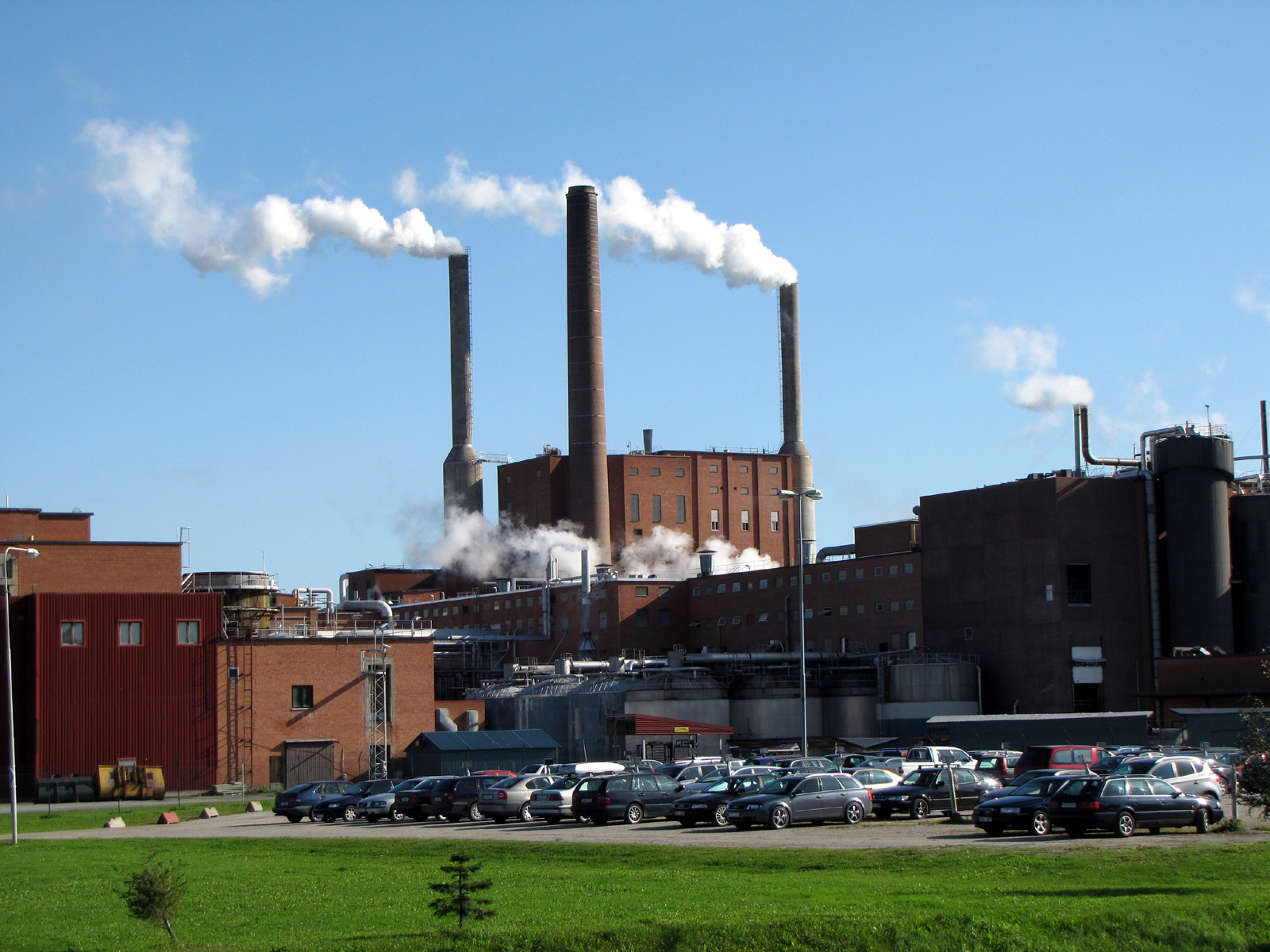 Pulp mill Domsjö Fabriker (formerly MoDo) in Örnsköldsvik, Sweden